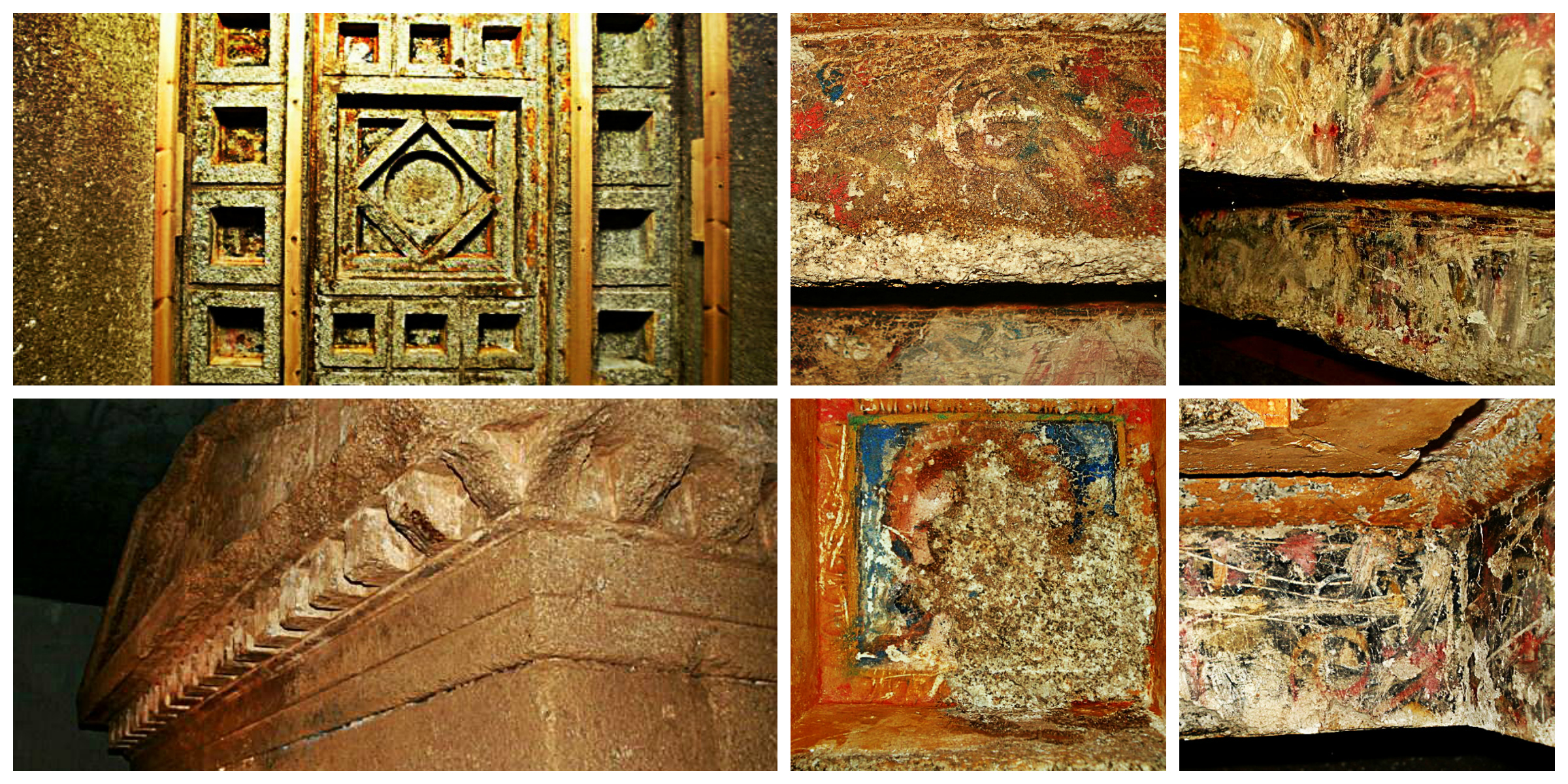 Ostrusha Kazanluk Top BG